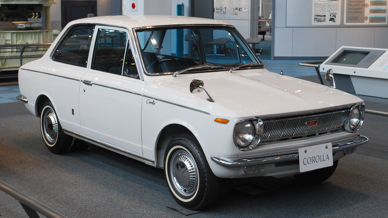 1st generation Toyota Corolla Model KE10